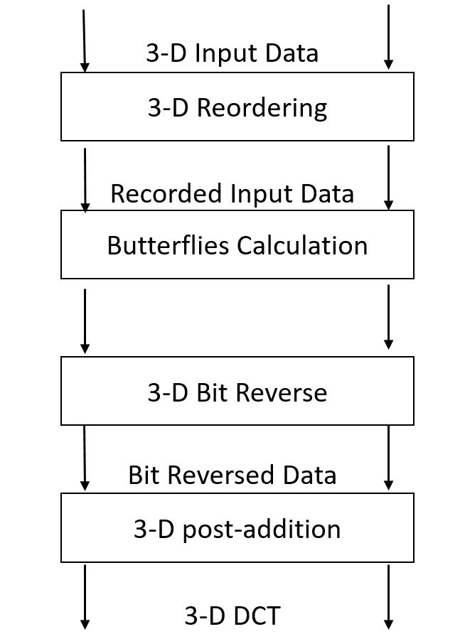 The basic stages of computing VR DIF Algorithm are given in the block diagram